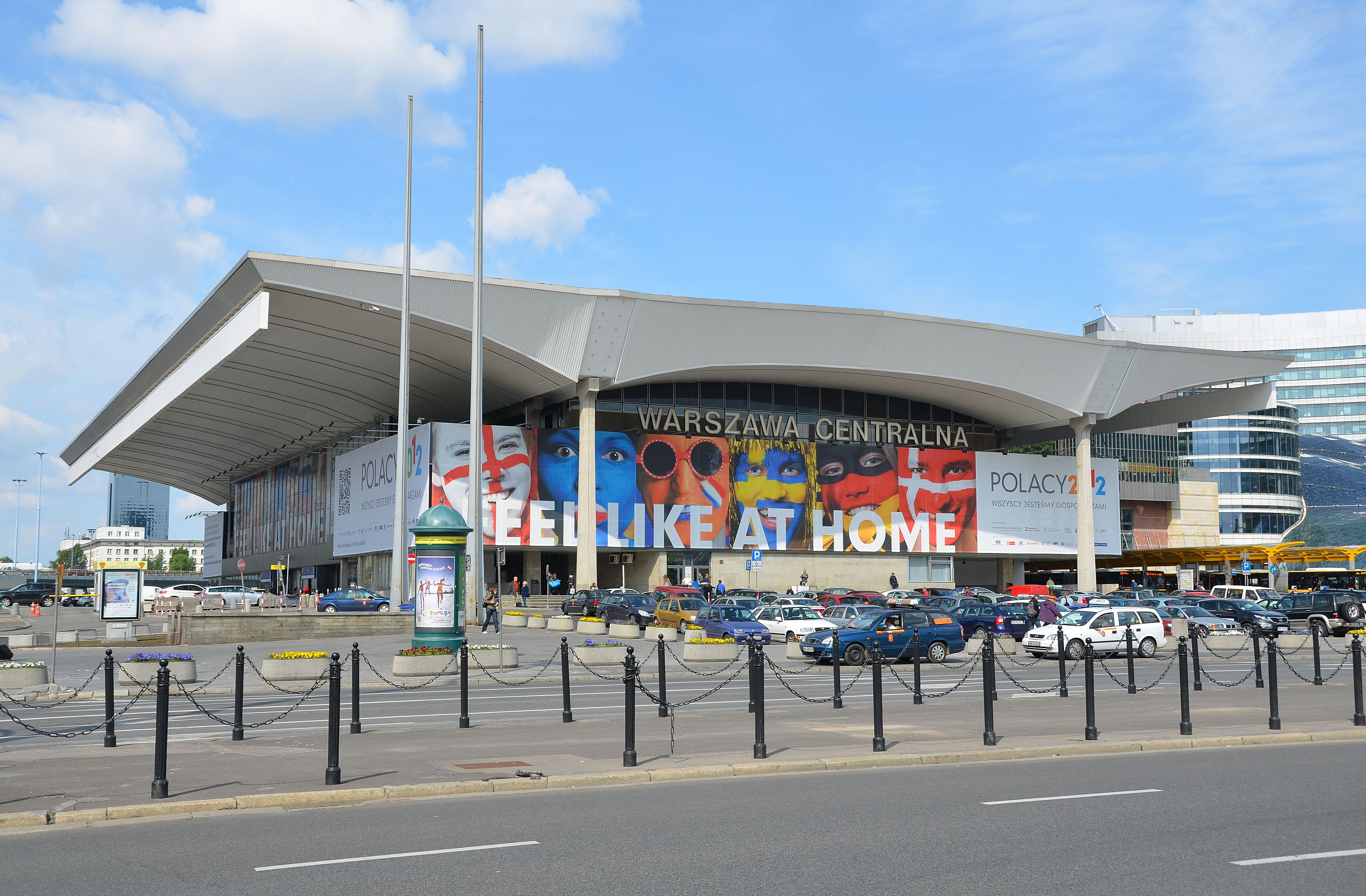 Warszawa Centralna railway staion during EURO 2012